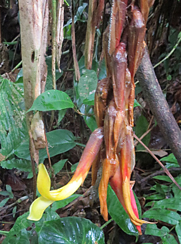 Last flowers of a drooping bromeliad. Found in tropical rainforests from Costa Rica to Peru, photo from Omaere Etnobotanical Garden, Puyo, Ecuador.